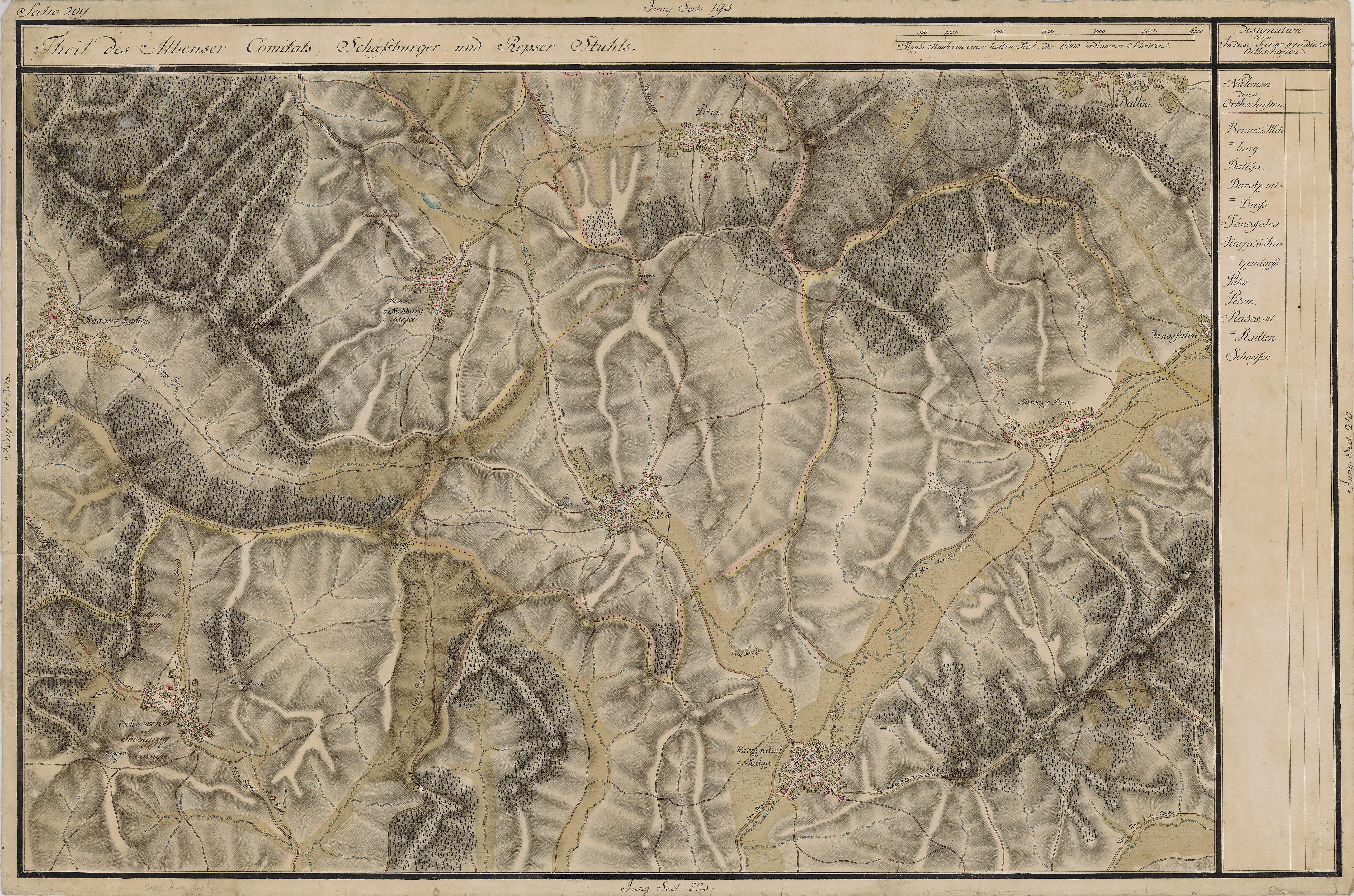 Grand Duchy of Transylvania, 1769-1773. Josephinische Landaufnahme pg.209